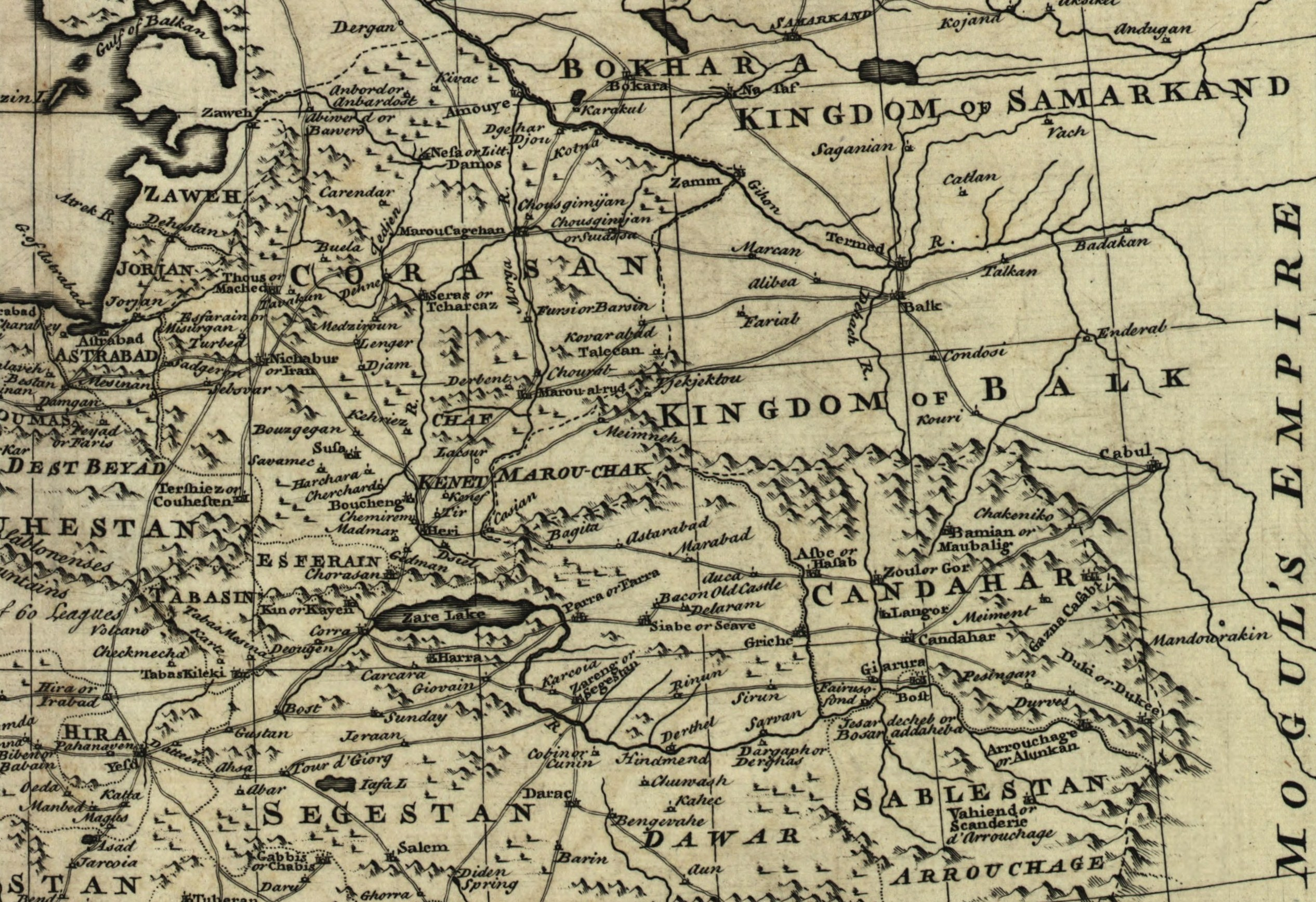 Map of Afghanistan during the Safavid and Mughal Empire, from the 16th century to 1747 when the current nation-state was created. Extracted from Bowen's A new & accurate map of Persia, with the adjacent countries.